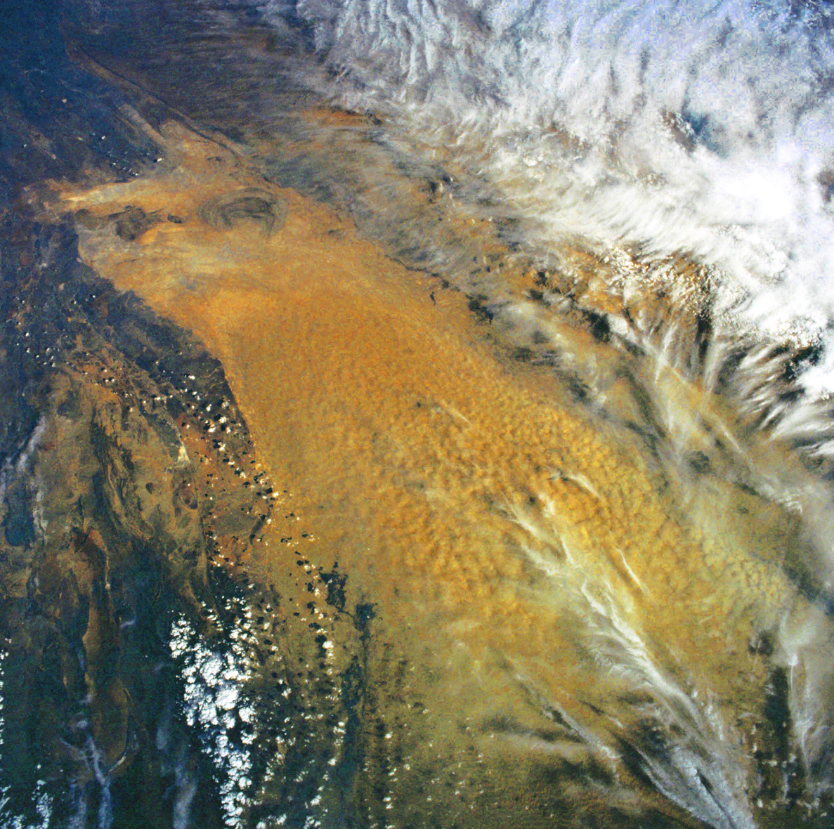 China, Xinjiang, desert Lop Nur. Satellite picture of the Desert of Lop with the Basin of the formerly sea Lop Nur. In the left Kuruktagh, in the right Astintagh.